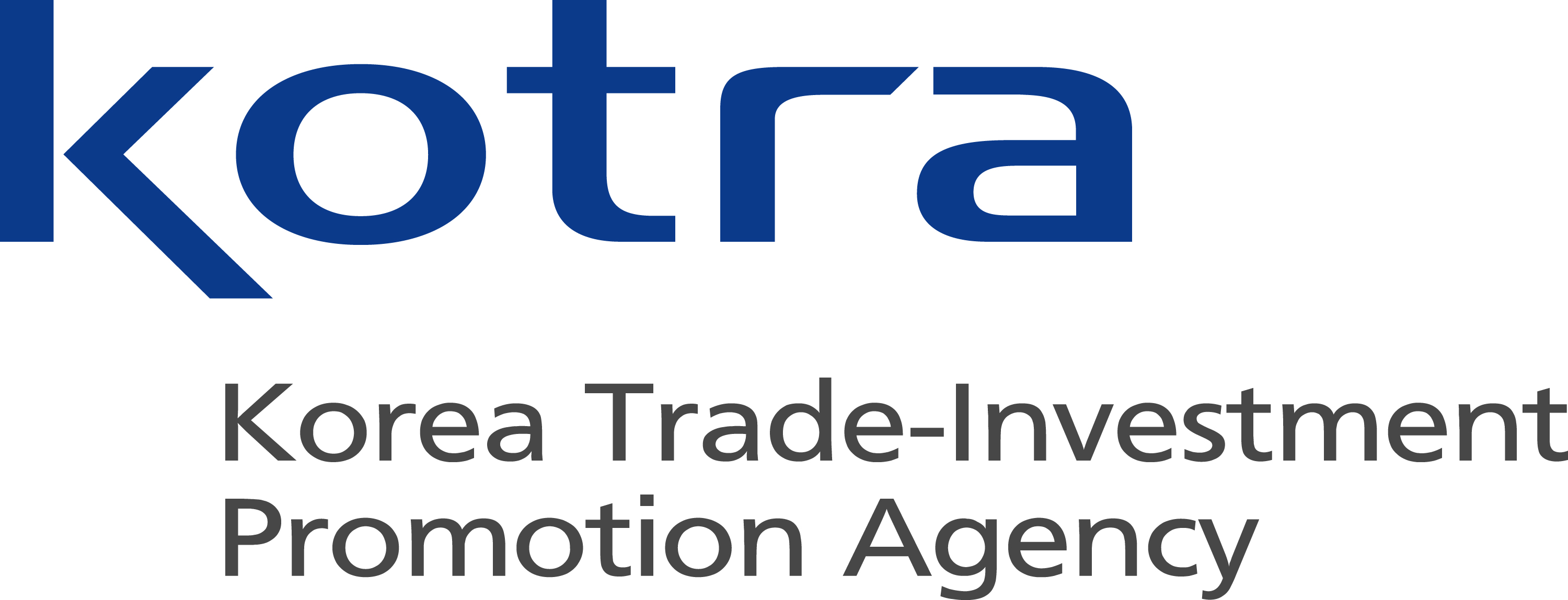 Logo of the Korea Trade-Investment Promotion Agency.